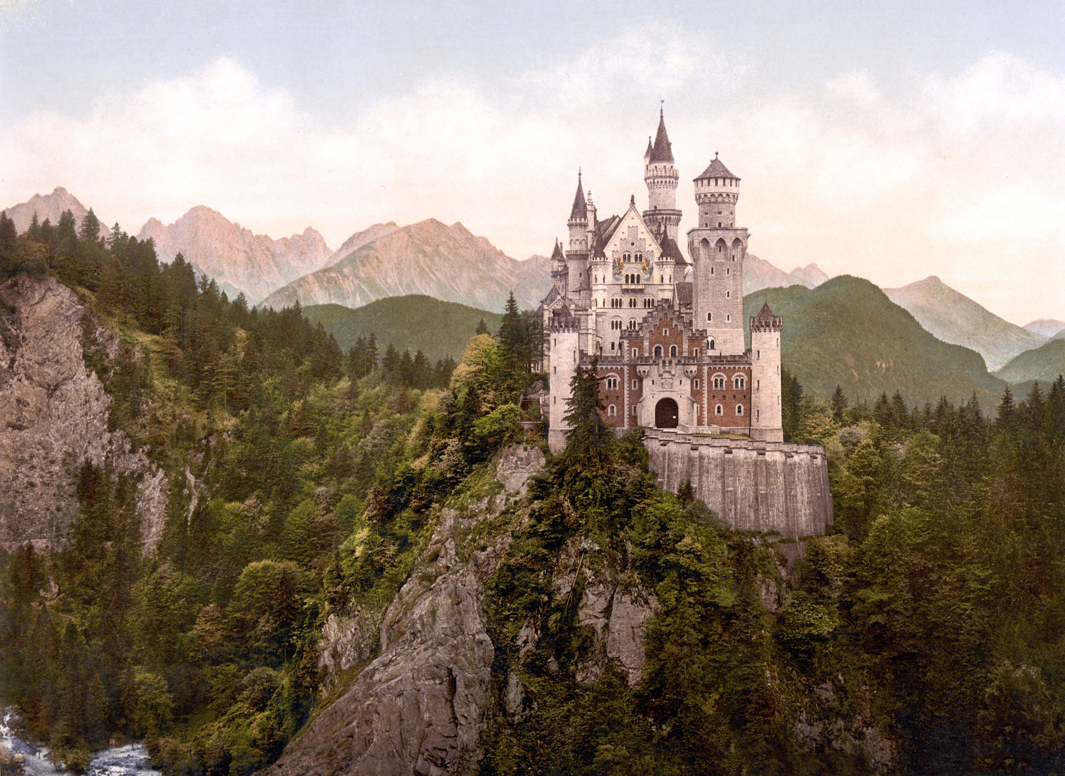 Photochrom print of the front of Neuschwanstein Castle, Bavaria, Germany, taken as few as ten years after the completion of the castle.